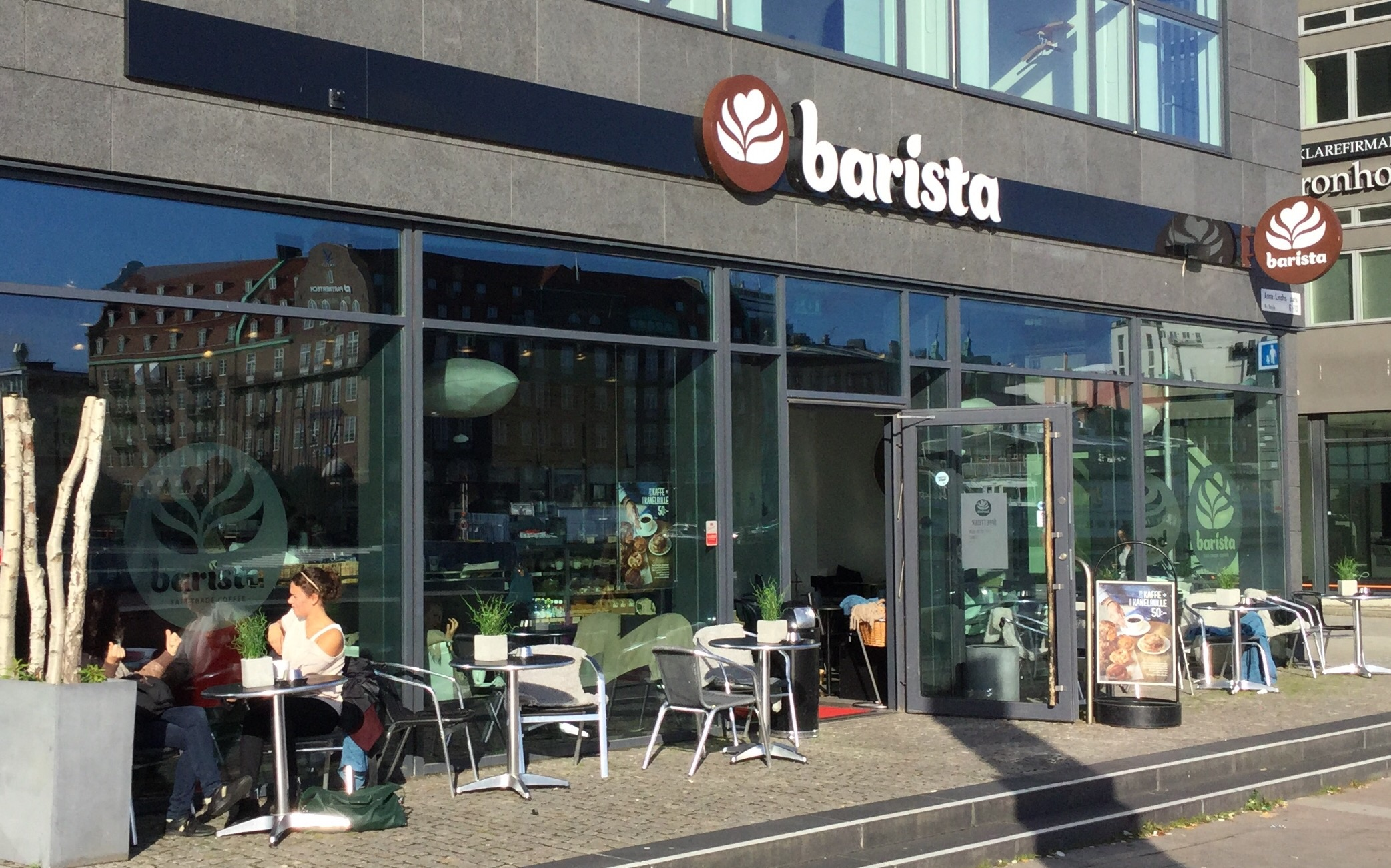 The café Barista Fair Trade Coffee in central Malmö in 2015